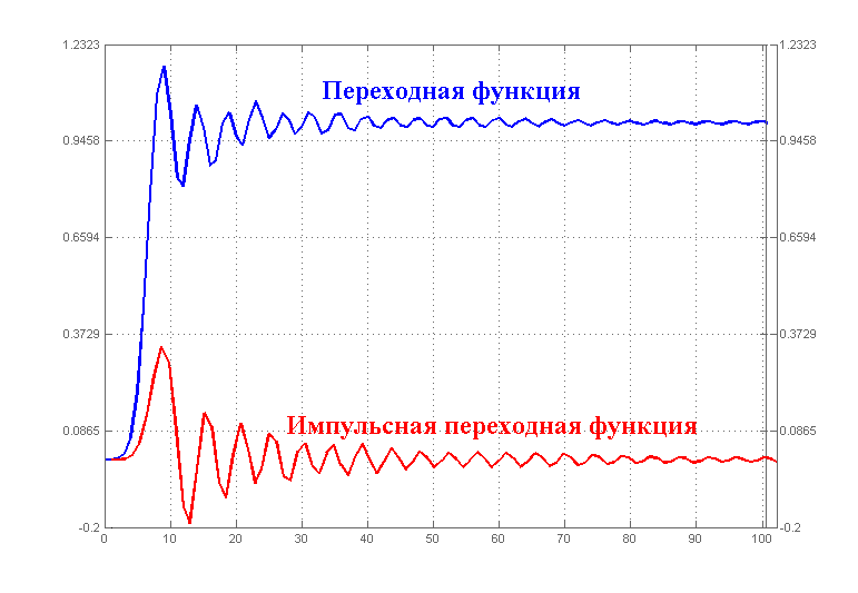 Time domain outputs of type I Chebyshev filter